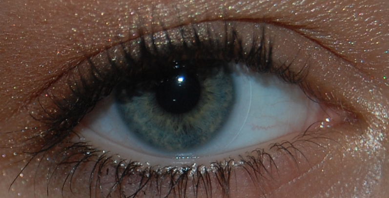 Eye with a contact lens (myopia).